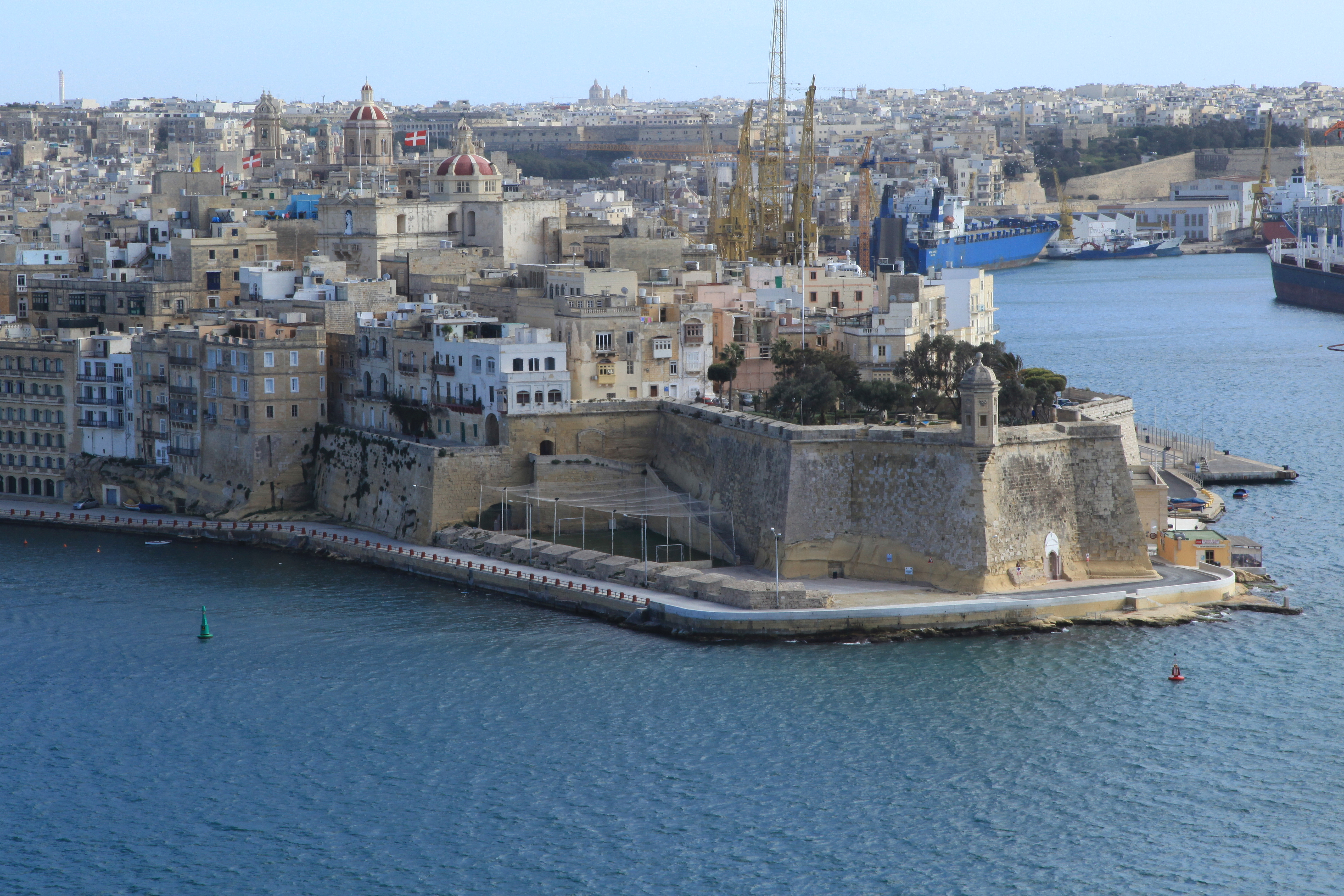 View from Upper Barrakka Gardens in Valletta to Fort Saint Michael in Senglea